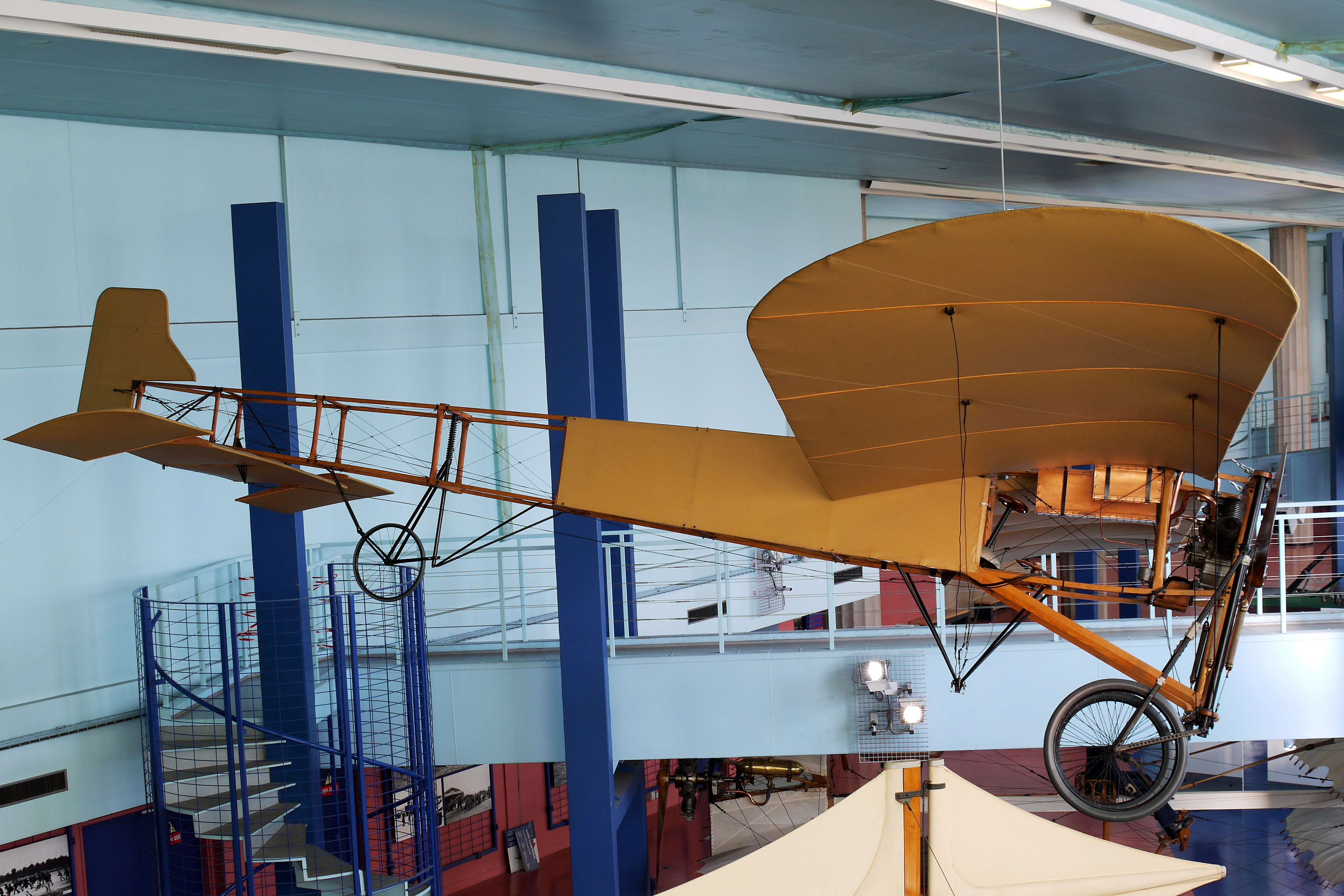 Blériot XI with Anzani engine, Museum of Air and Space Paris, Le Bourget (France)